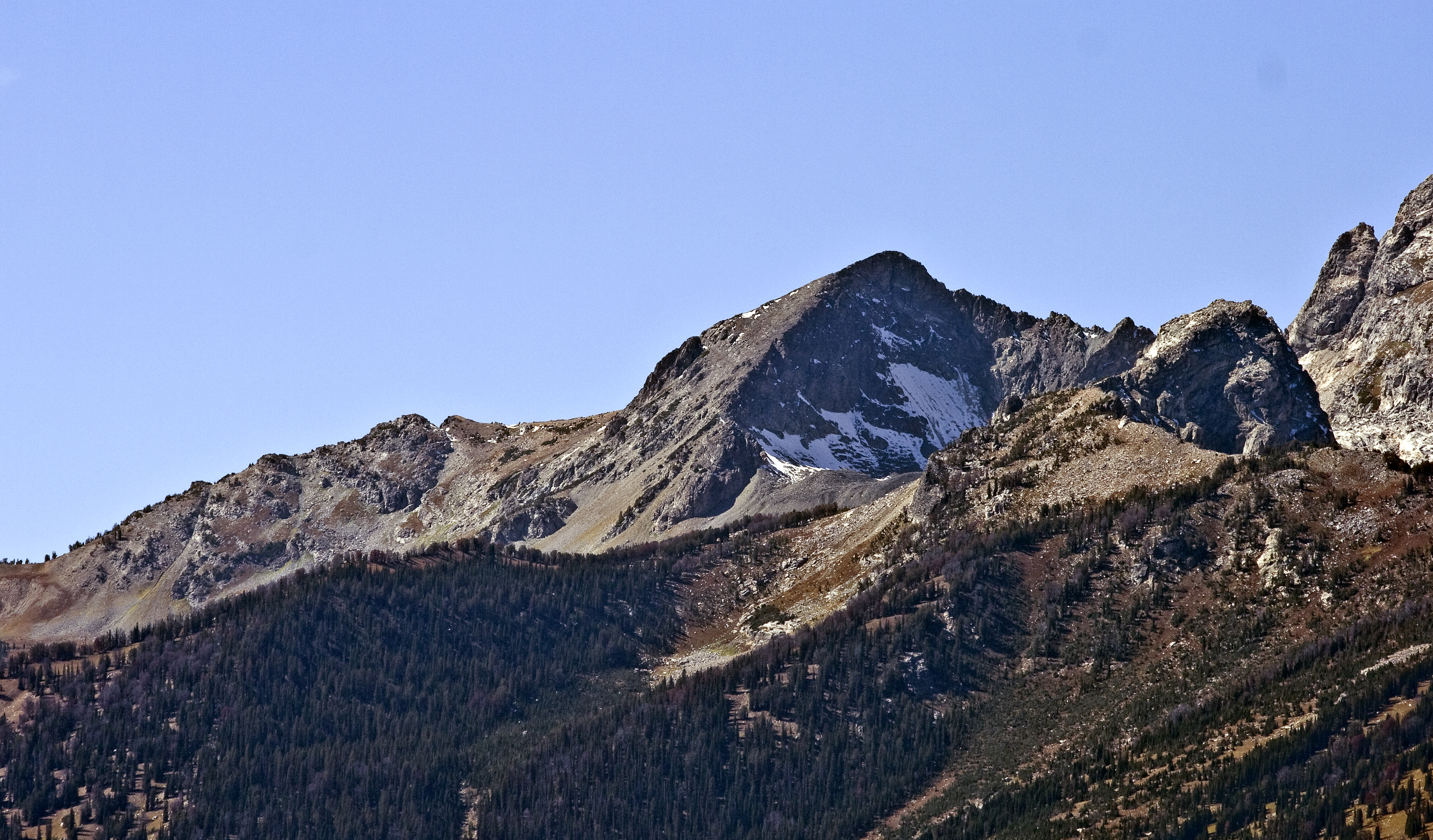 Static Peak in Grand Teton National Park, Wyoming, USA. Image taken from the Teton Point turnout.